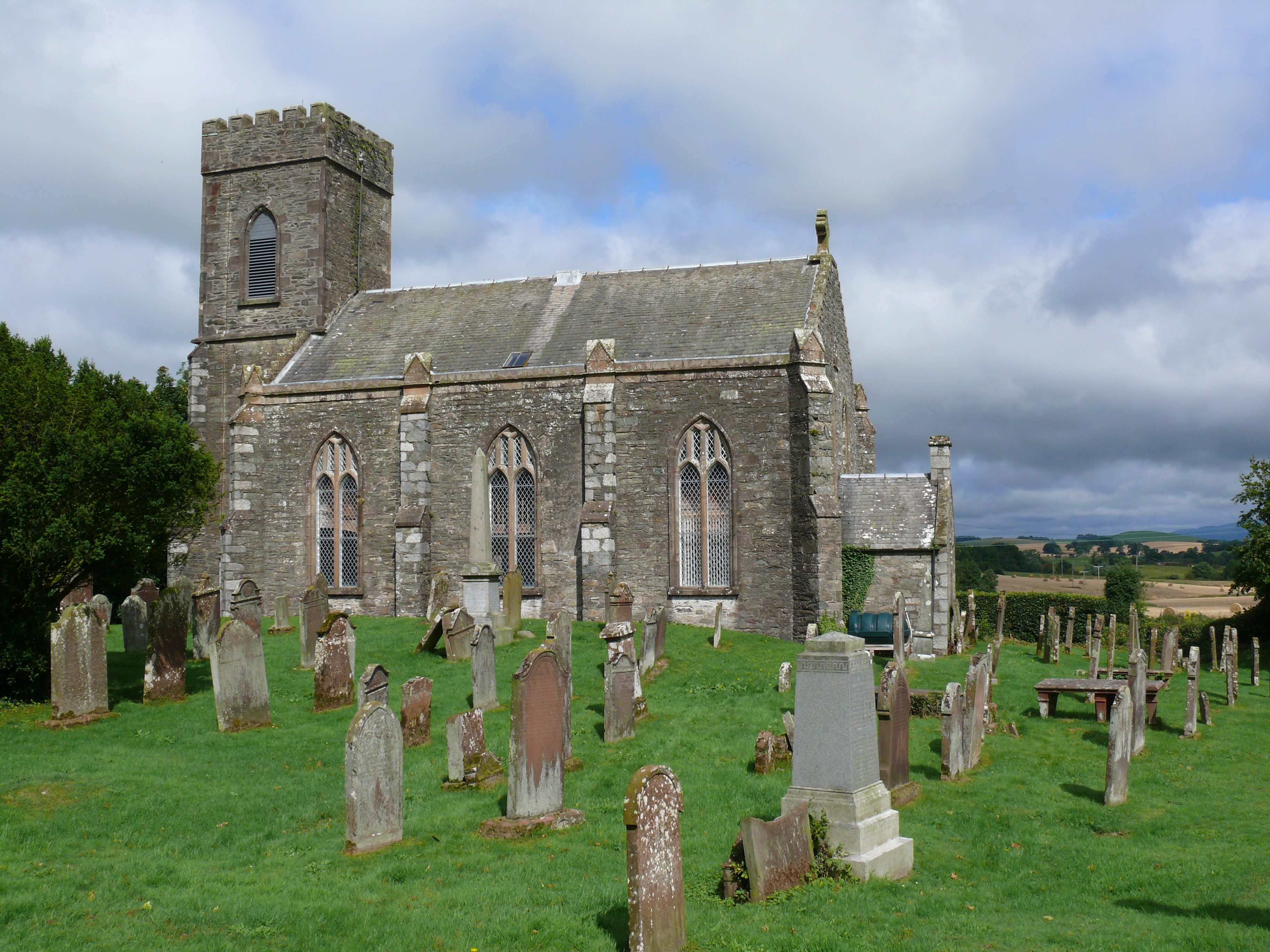 Kirkinner Parish Church, view north of the back of the church. Fields in Braehead are on the right.